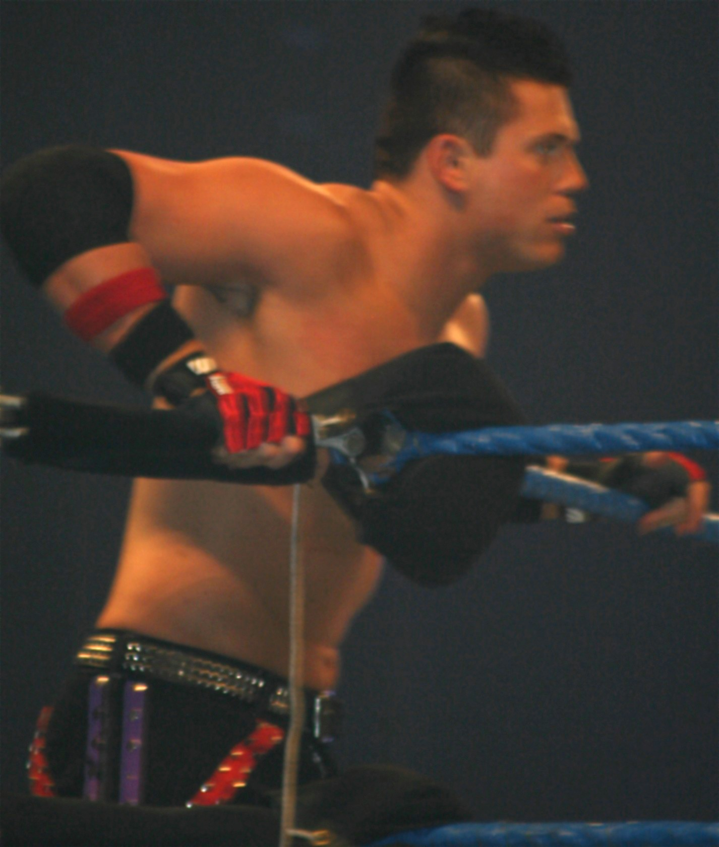 The Miz standing on the apron at the ECW/SmackDown tapings.